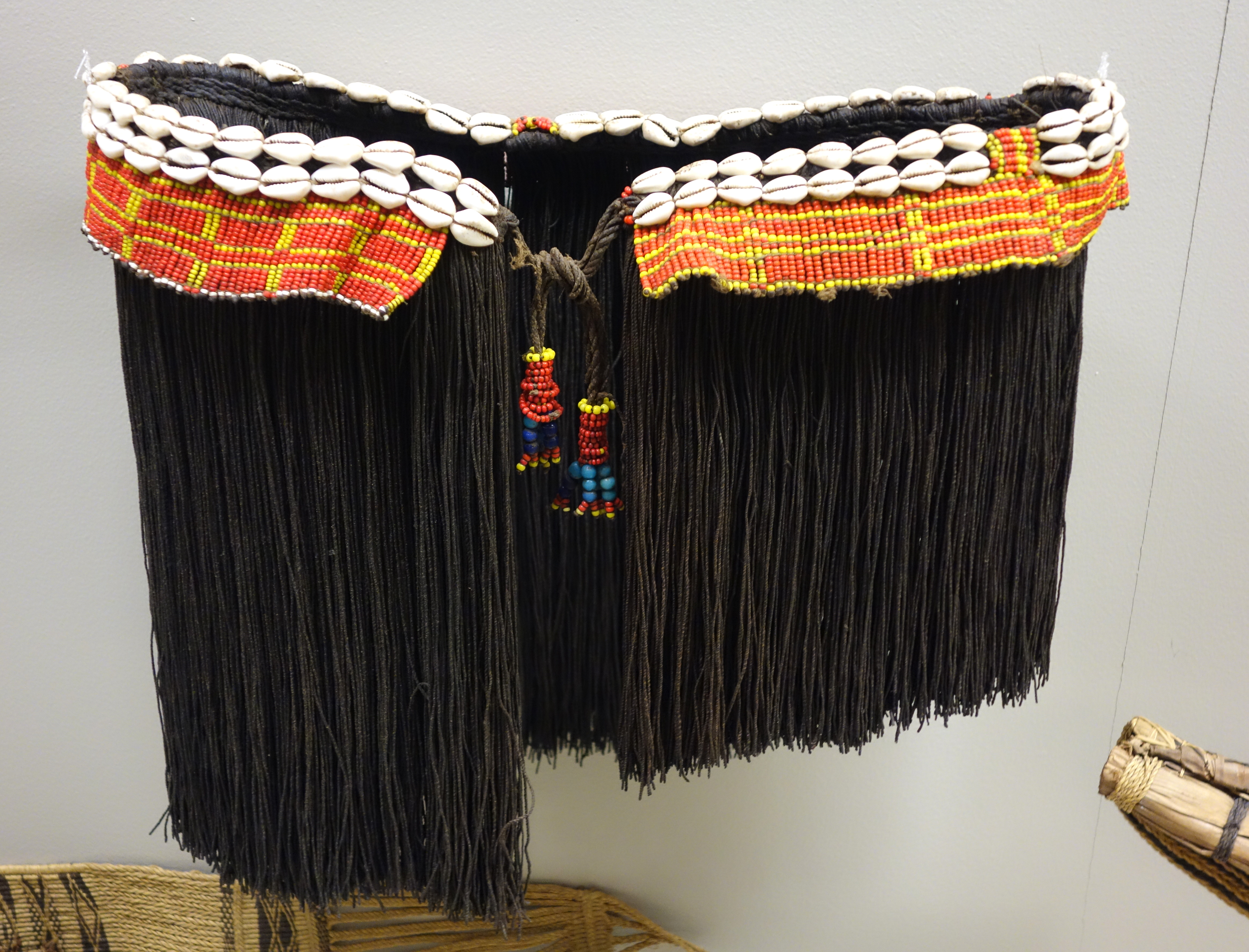 Exhibit in the Royal Museum for Central Africa, Tervuren, Belgium. This object is old enough so that it is in the public domain.